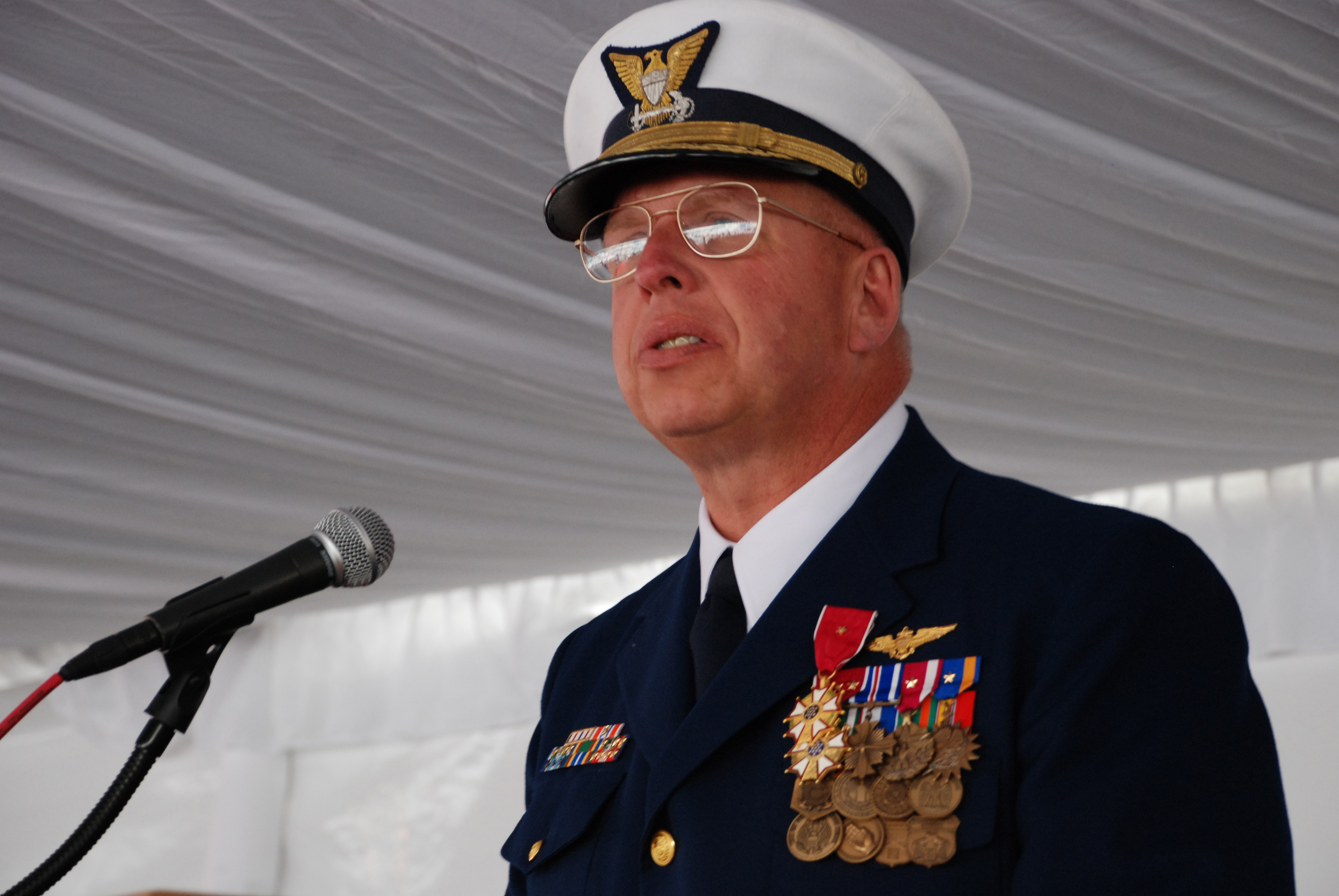 Coast Guard Rear Adm. John P. Currier speaks to the audience at the 13th Coast Guard District’s change of command ceremony in Seattle, Tuesday, July 14, 2009. Rear Adm. Gary T. Blore relieved Admiral Currier as Commandant of the 13th Coast Guard District.